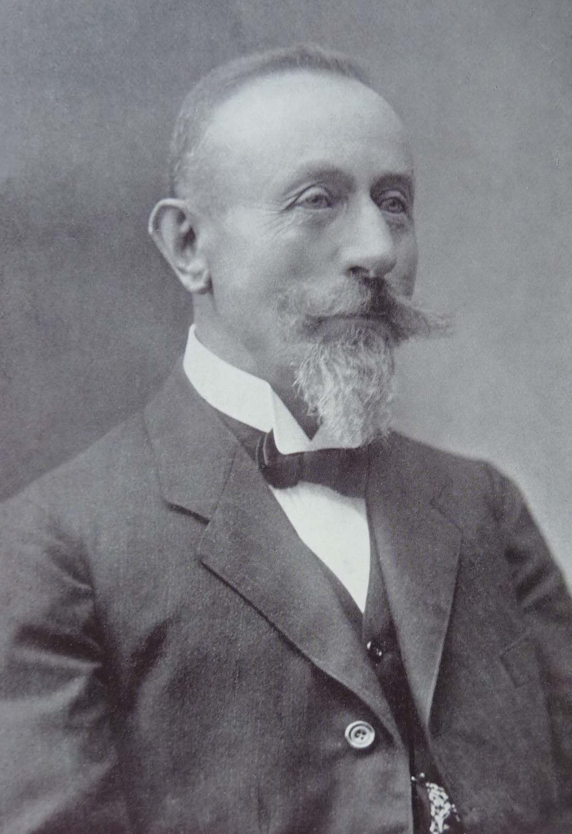 Portrait of the Swiss Publisher Hermann Jent